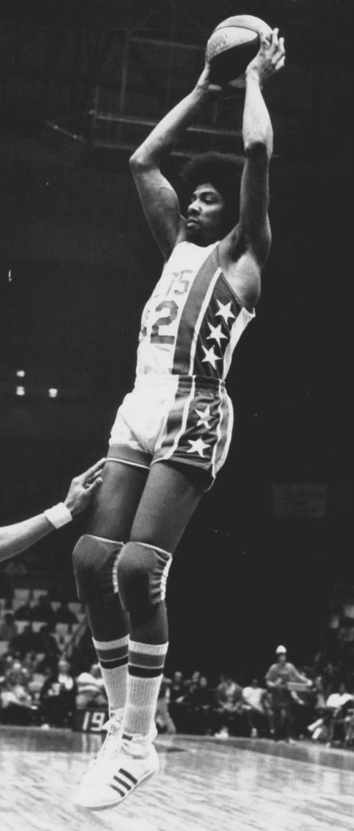 Professional basketball player Julius Erving